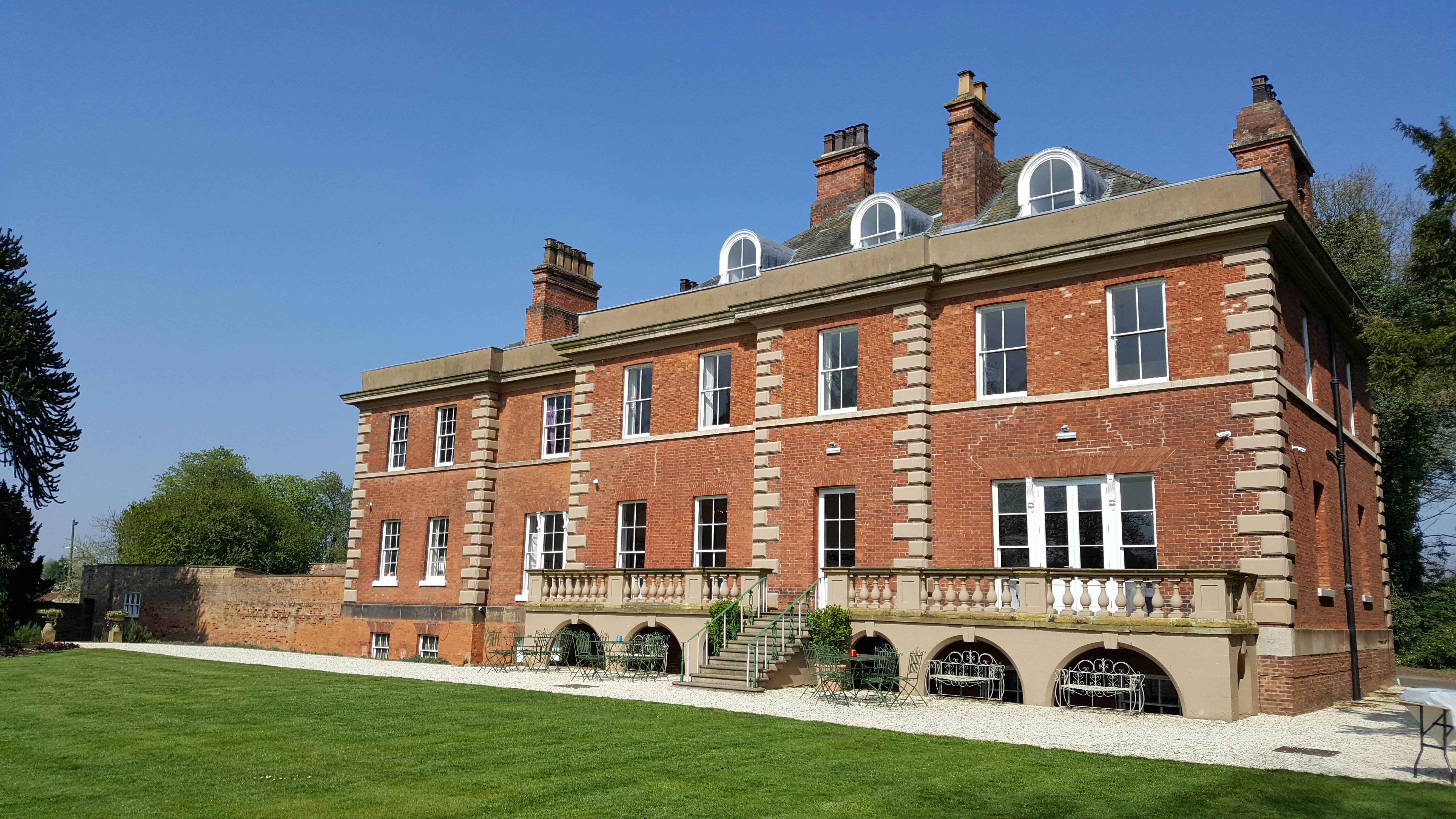 Hirst Priory south facing aspect with balcony overlooking the lawned gardens with an uninterupted view of the countryside thanks to its Haha landscape feature.